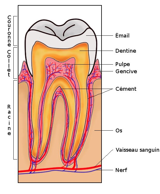 This image is a translated version of Image:ToothSection.jpg. It was translated by User:FredB. The original copyleft below applies.